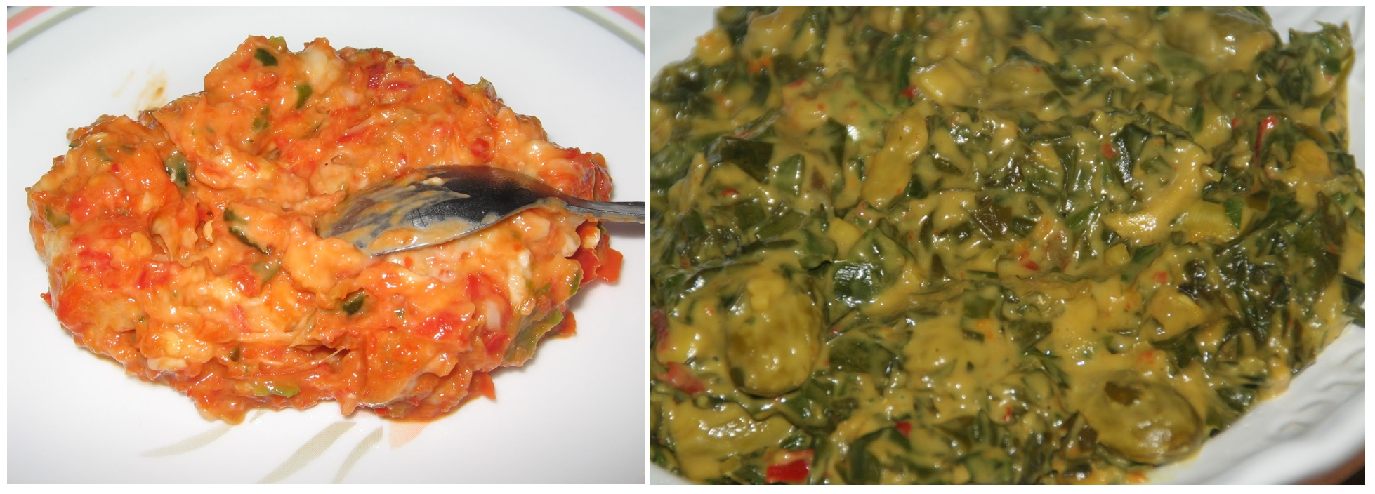 Raw and cooked Sambal tempoyak in a single frame.